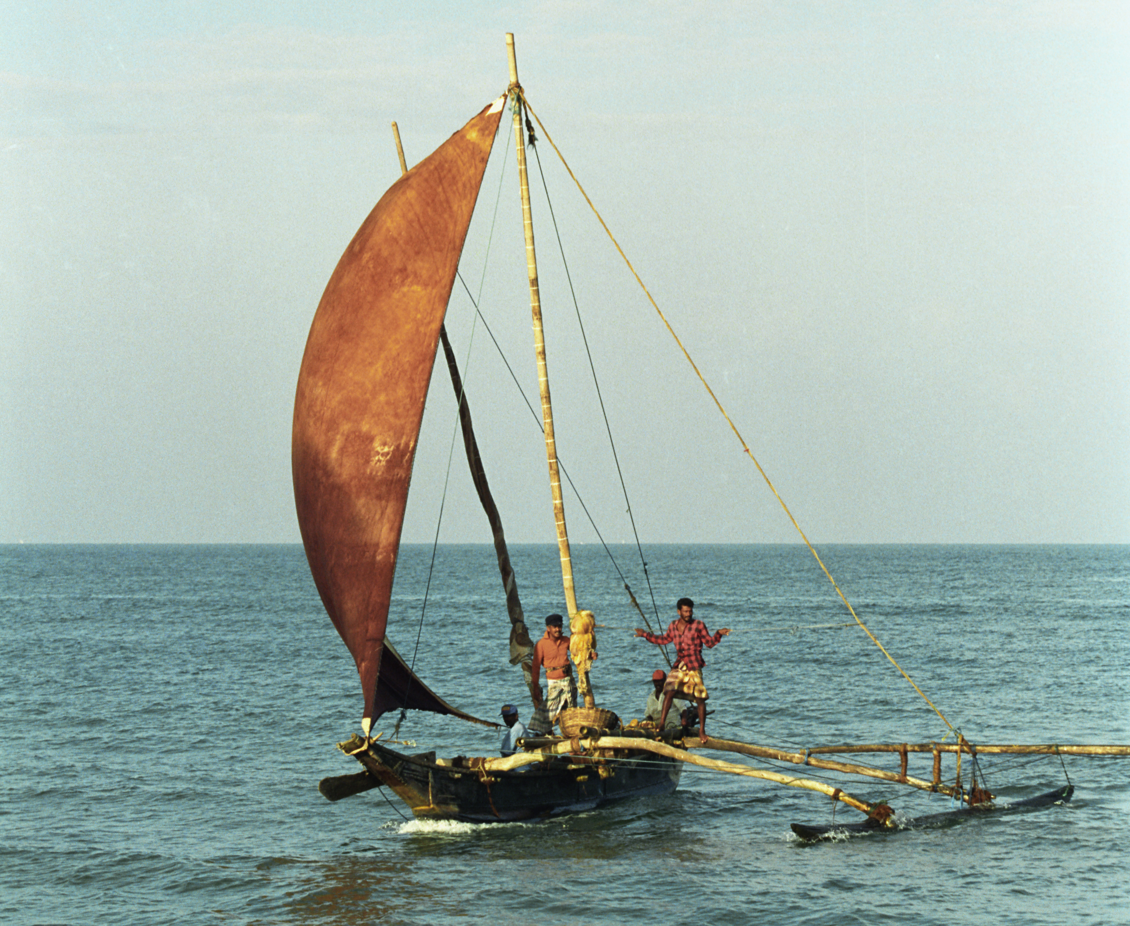 Fishermen's boat, Negombo, Sri Lanka